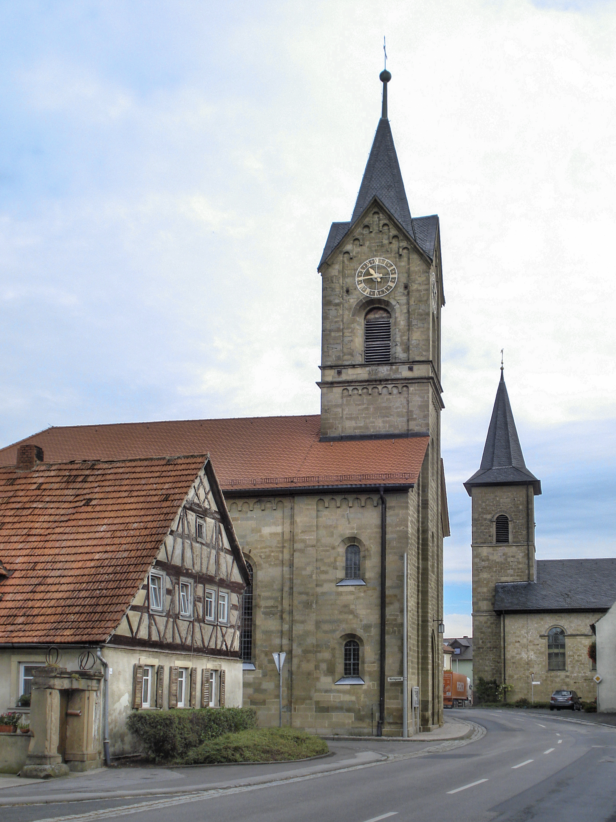 Knetzgau, Westheim